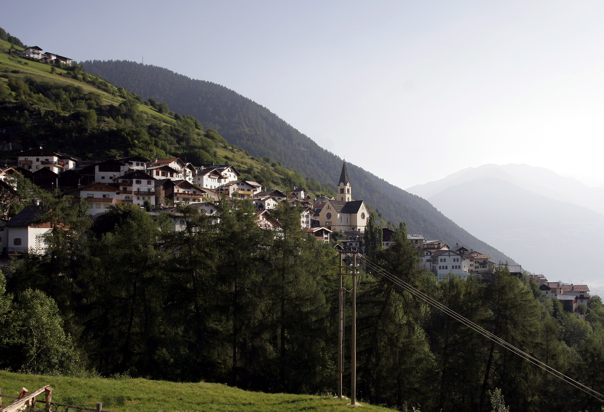 Stilfs (South Tyrol), seen from Gomagoi.